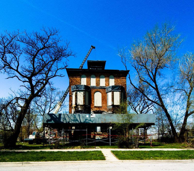 Flickr description 57th and Lafayette. From the Commission on Chicago Landmarks: One of the city's few remaining pre-Fire of 1871 residences, this is a rare surviving example in the Englewood community of a large country estate. The Italianate-style brick residence, which is capped by a wooden cupola, was constructed by John Raber, a prominent area businessman, real-estate developer, and politician. The residence's original 6 acre grounds and gardens were so extensive that the house's initial address was on State Street (then South Plank Road), one block to the east.